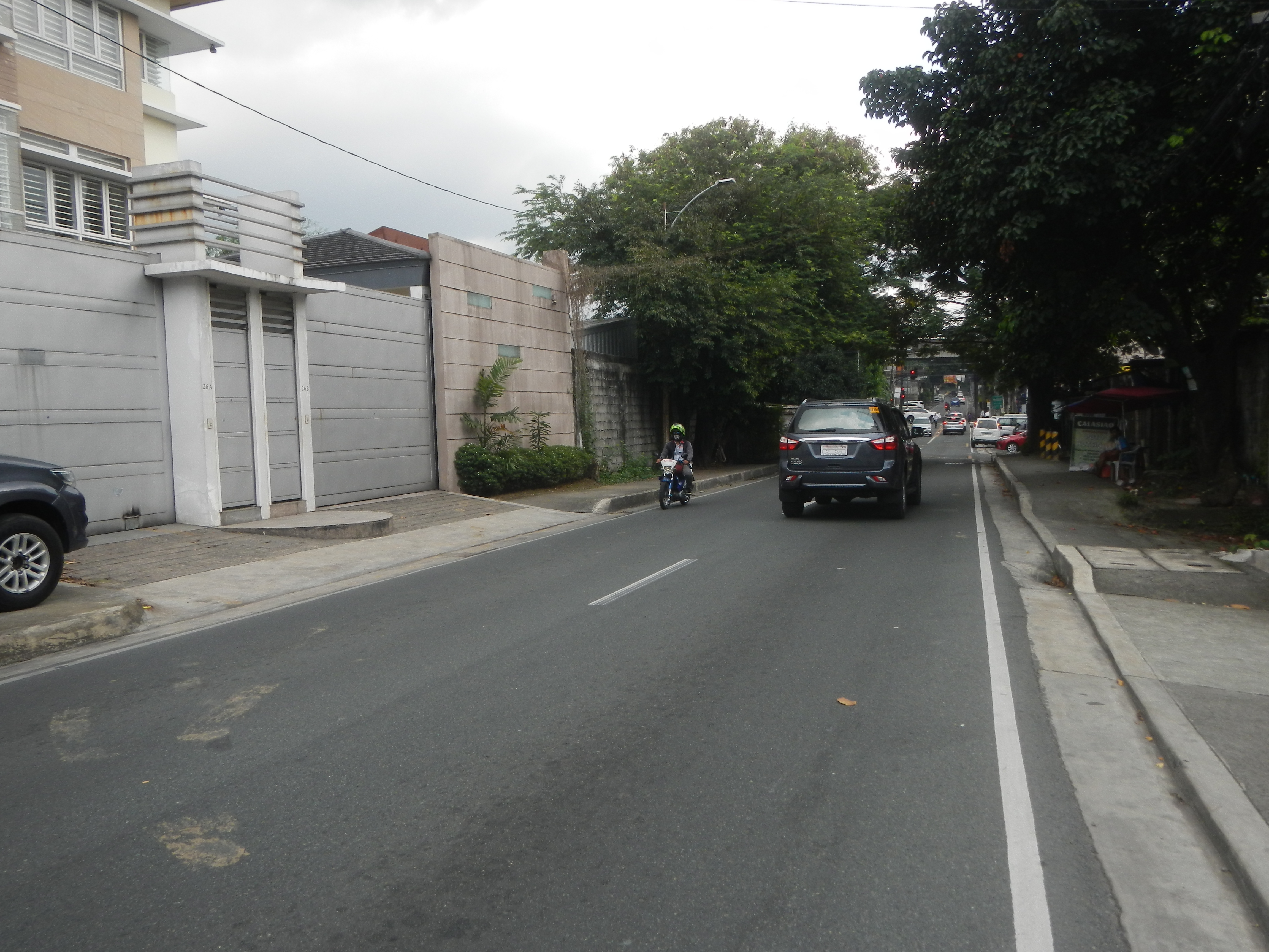 Renee Salud (Balete Drive, Mariana, New Manila, Quezon City) Centennial House (Bahay Sentenaryo), Balete Drive, Mariana, New Manila, Quezon City Rene Salud Fashion Ambassador Balete Drive (E. Rodriguez, Sr. Avenue - Bouganvilla Street), Mariana, New Manila, Quezon City in front of Balete Drive Extension Balete Drive Haunted highway List of haunted locations in the Philippines Major roads in Metro Manila in the List of barangays of Metro Manila Legislative districts of Quezon City Districts 3, Barangays of Quezon City, Barangay Kristong Hari 14°37'28"N 121°1'31"E beside Mariana 14°37'1"N 121°2'13"E New Manila, Quezon City upon the List of rivers and estuaries in Metro Manila Diliman Creek from San Juan River (Metro Manila) Estuaries in Cubao, Quezon City along Aurora Boulevard (Note: Judge Florentino Floro, the owner, to repeat, Donor Florentino Floro of all these photos hereby donate gratuitously, freely and unconditionally all these photos to and for Wikimedia Commons, exclusively, for public use of the public domain, and again without any condition whatsoever).